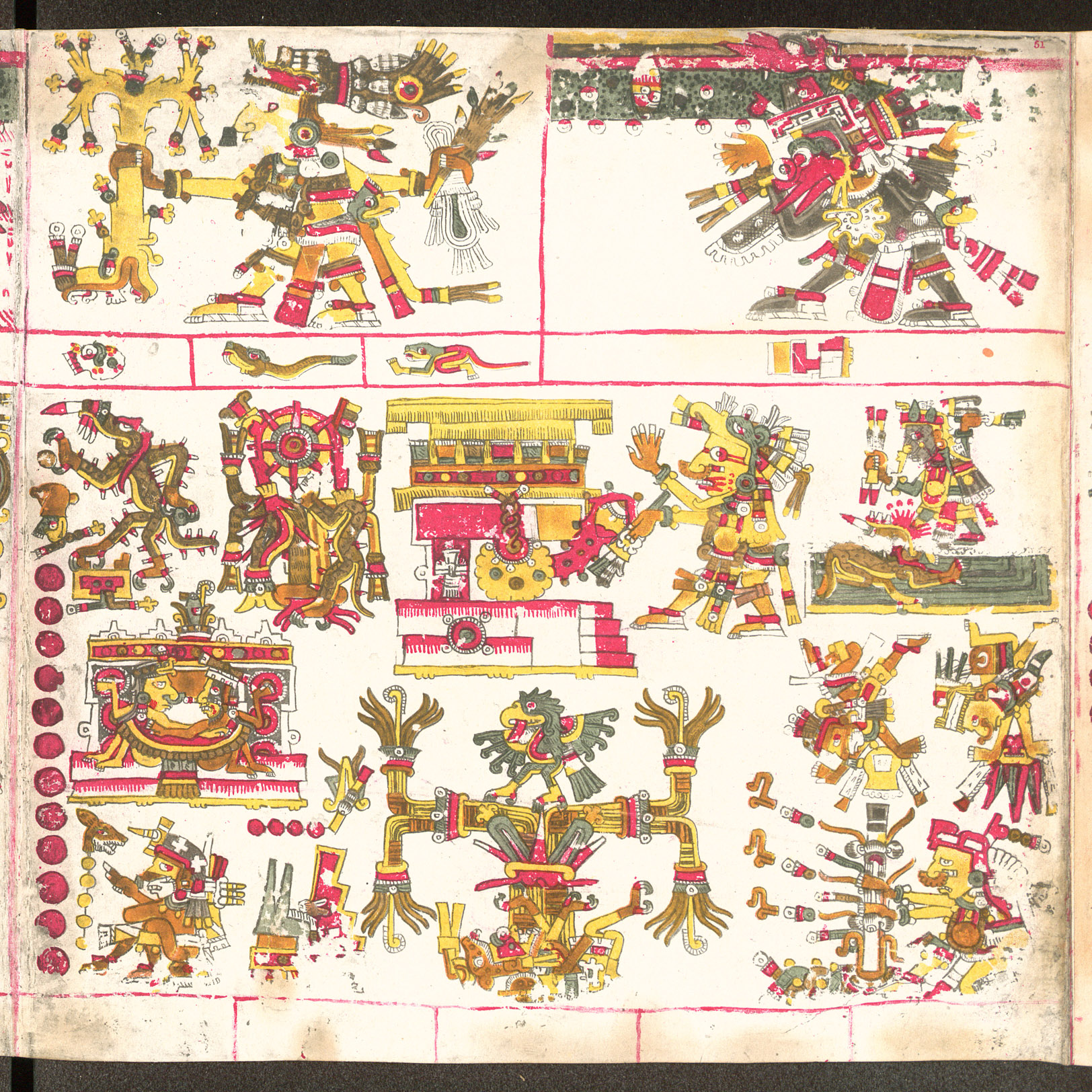 Page 51 of the Codex Borgia.